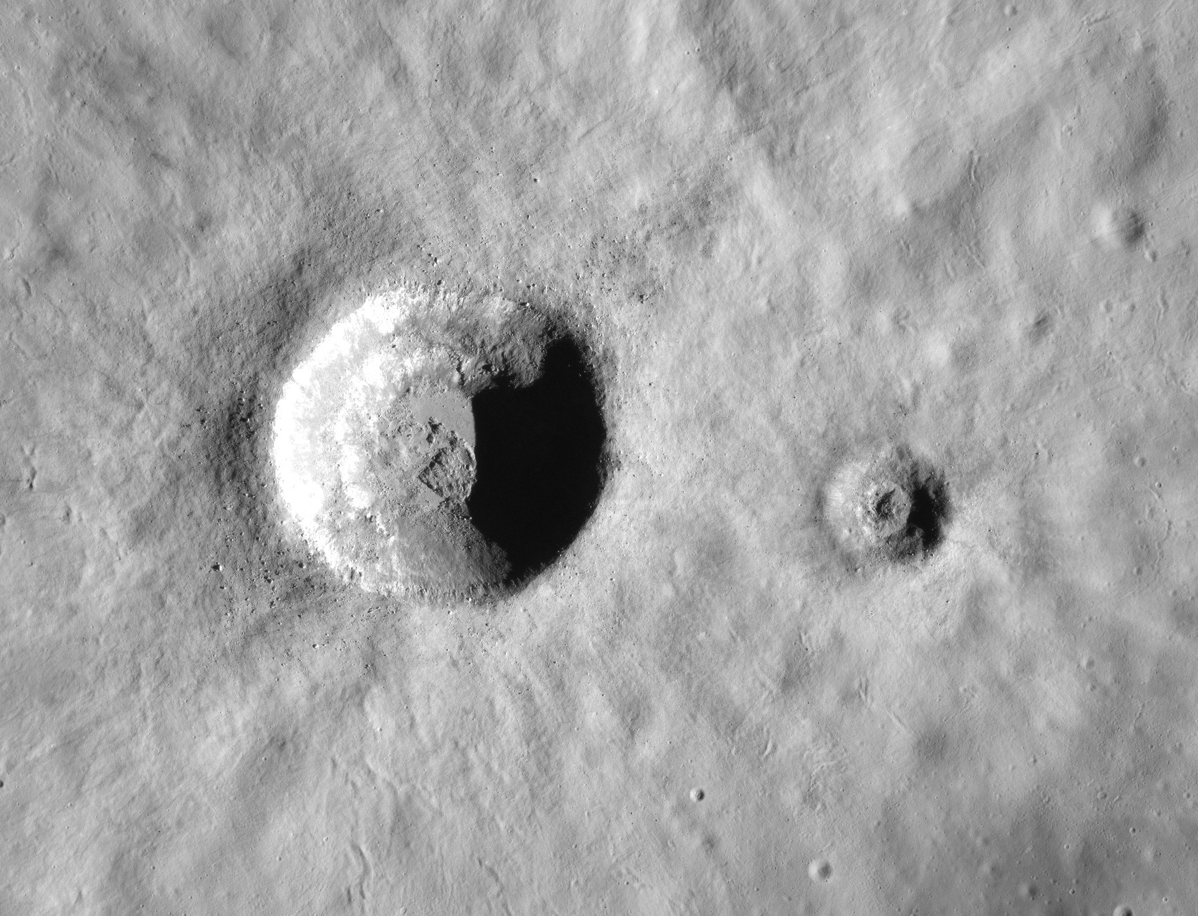 Samir crater (left) and Louise crater (right), on the moon. Taken by Apollo 15 panoramic camera.